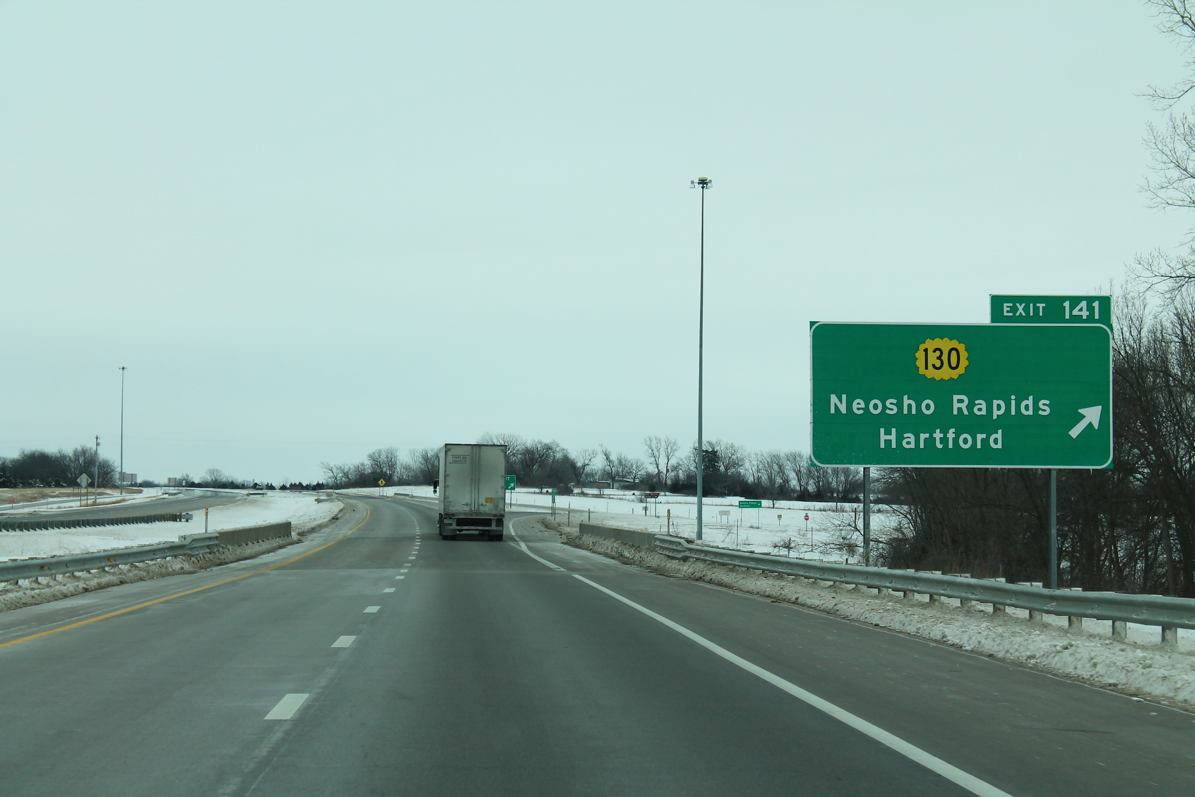 Int35nRoad-Exit141-KS130